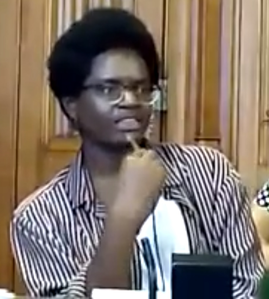 The concept of the War Machine film is lots of short clips of people's testimonies. Everyone will get 5 minutes each and then we will open it up to the floor. The war machine is everything. Capitalism, consumerism, privatisation of public services, low pay no pay zero hour contracts. Recapitalization of banks through public funds and more; these are the collected stories of the War Machine Reni Eddo-Lodge -- writer contributing editor black times involved with BlackFems